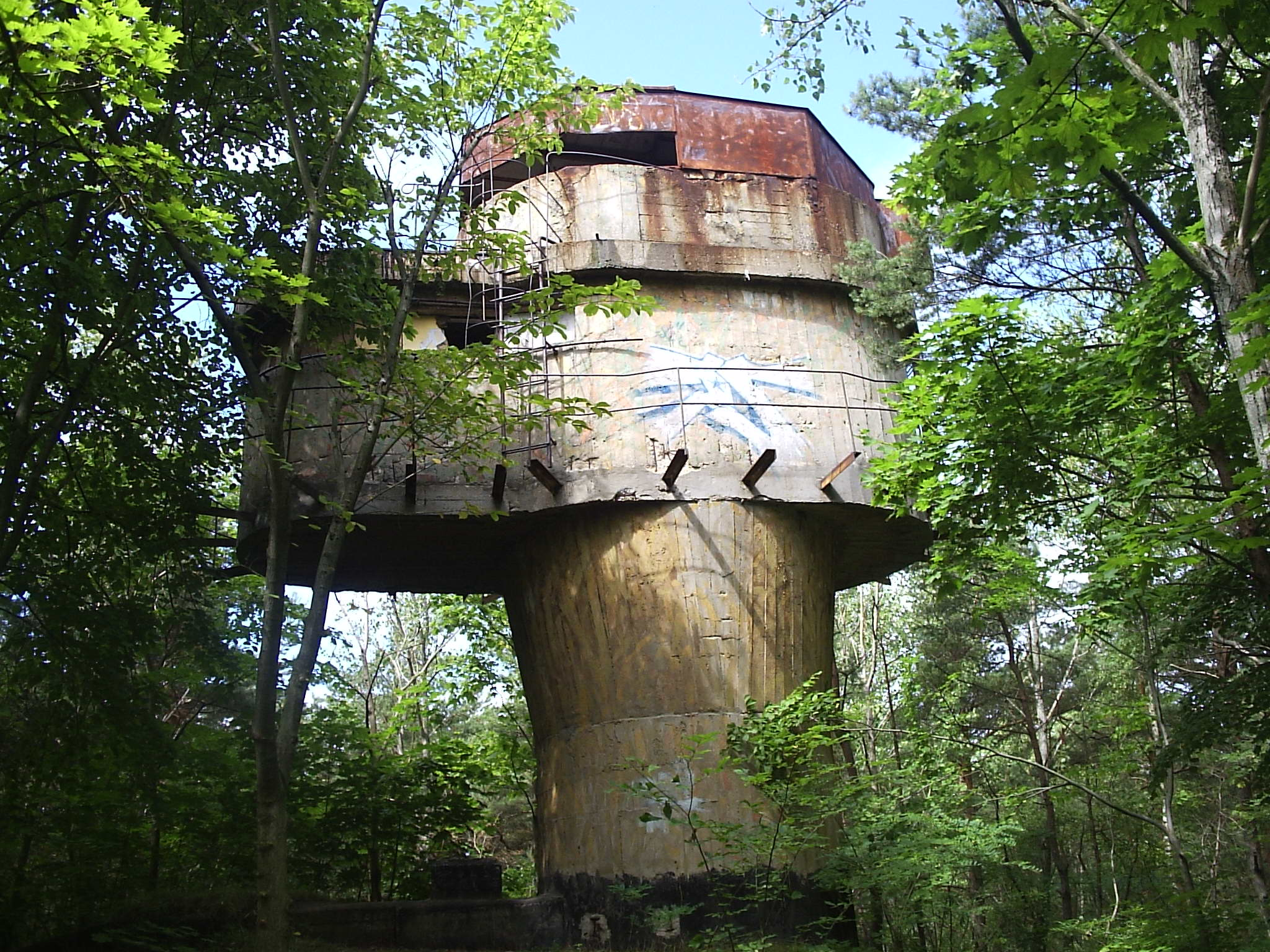 Rangefinder tower of 27 BAS battery at Hel Fortified Area.